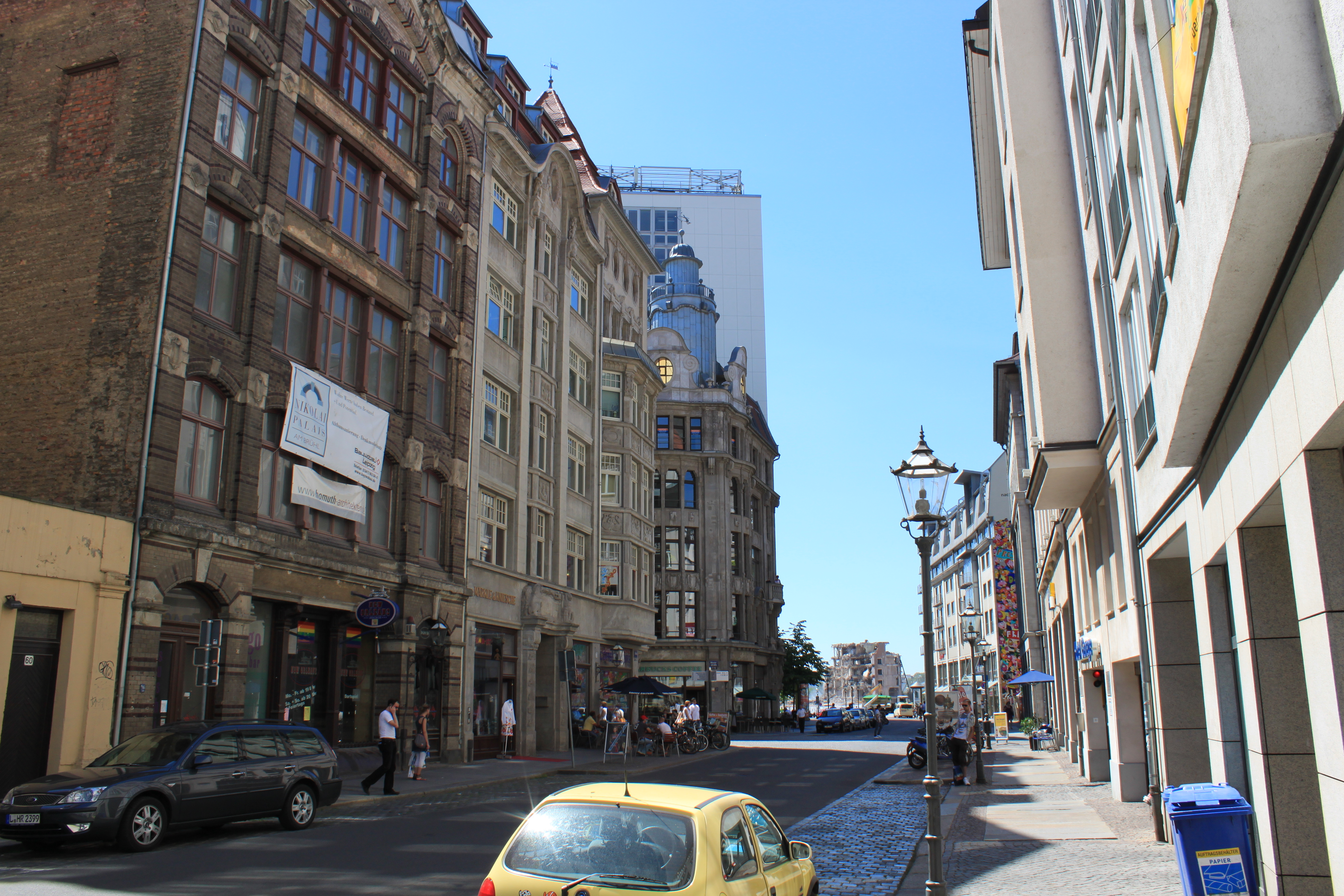 cross Brühl/Nikolaistreet